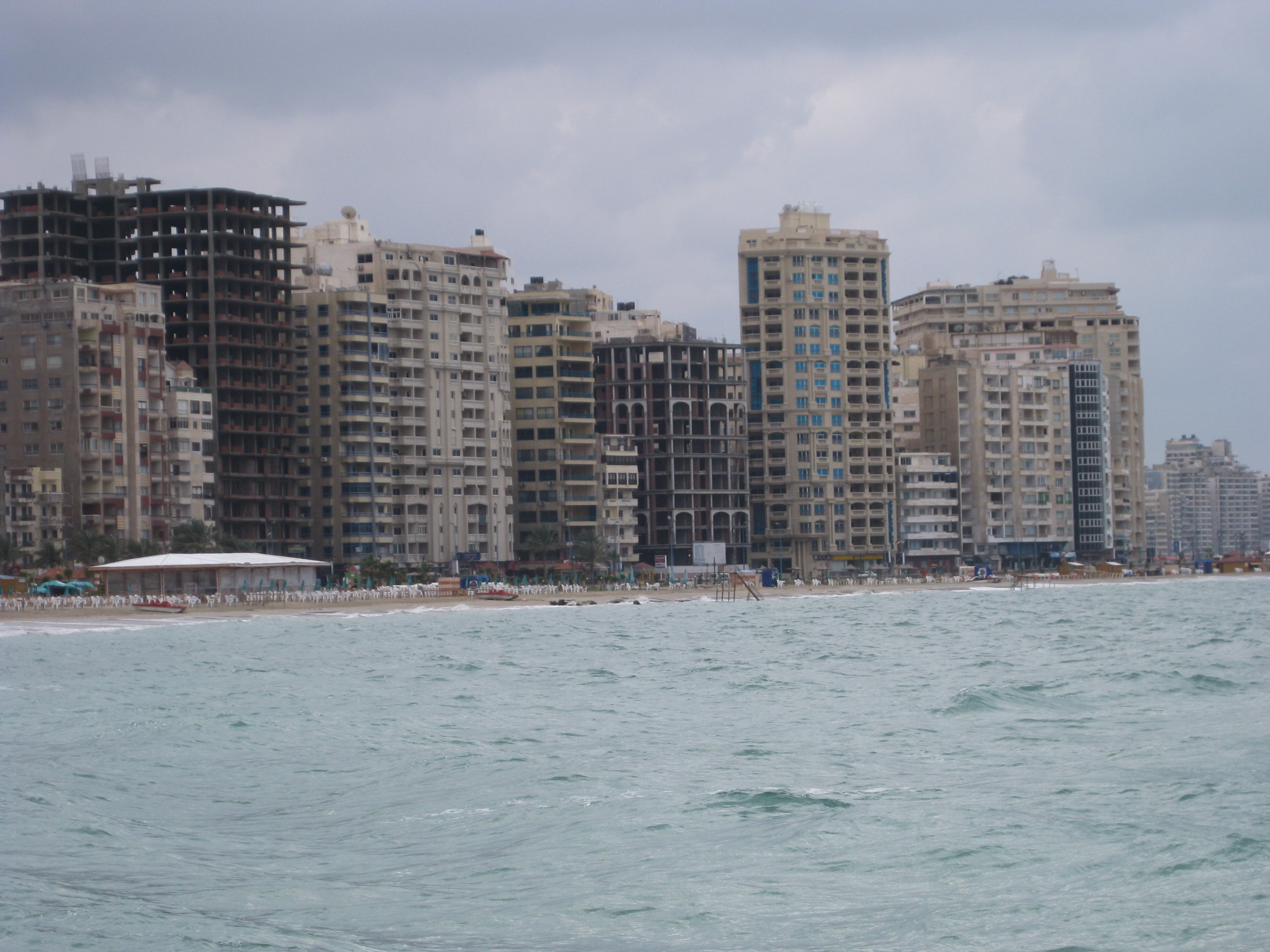 Photo of the skyline of Alexandria, Egypt, taken from a fish restaurant